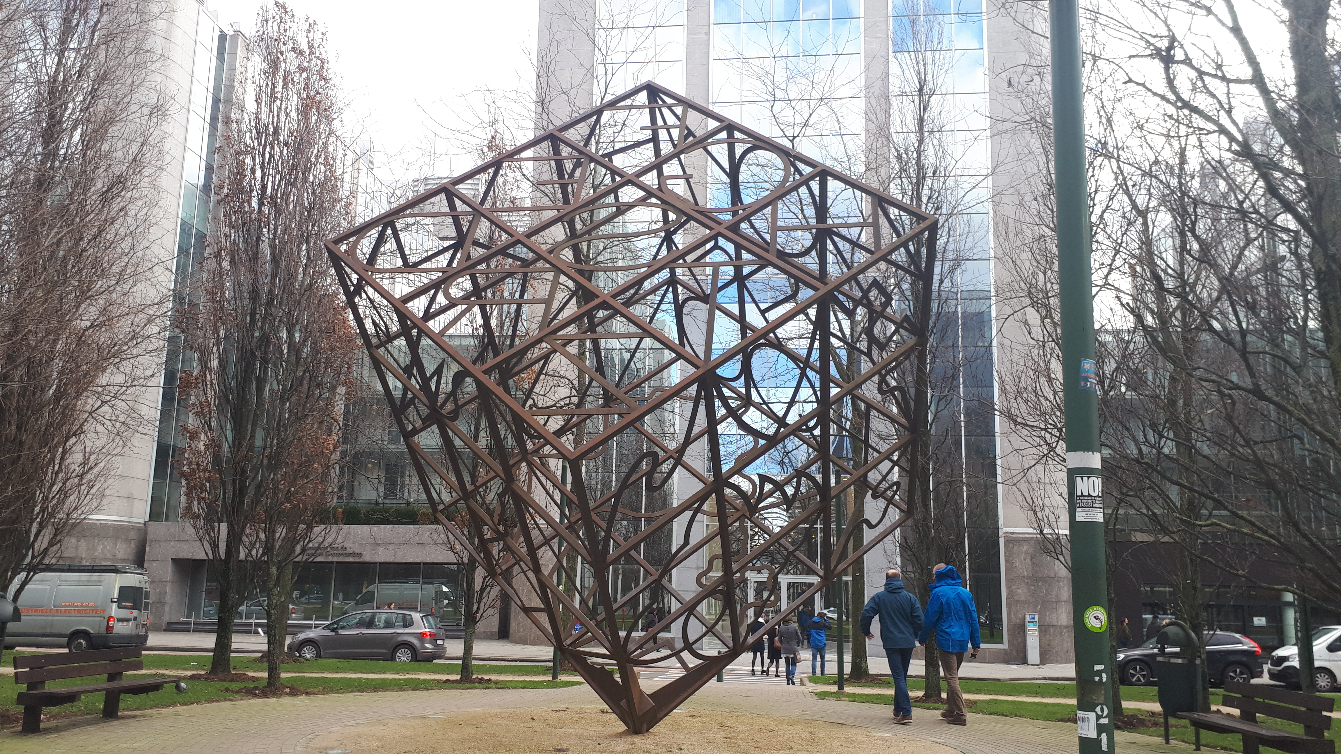 Hendrik Consciencegebouw Brussels